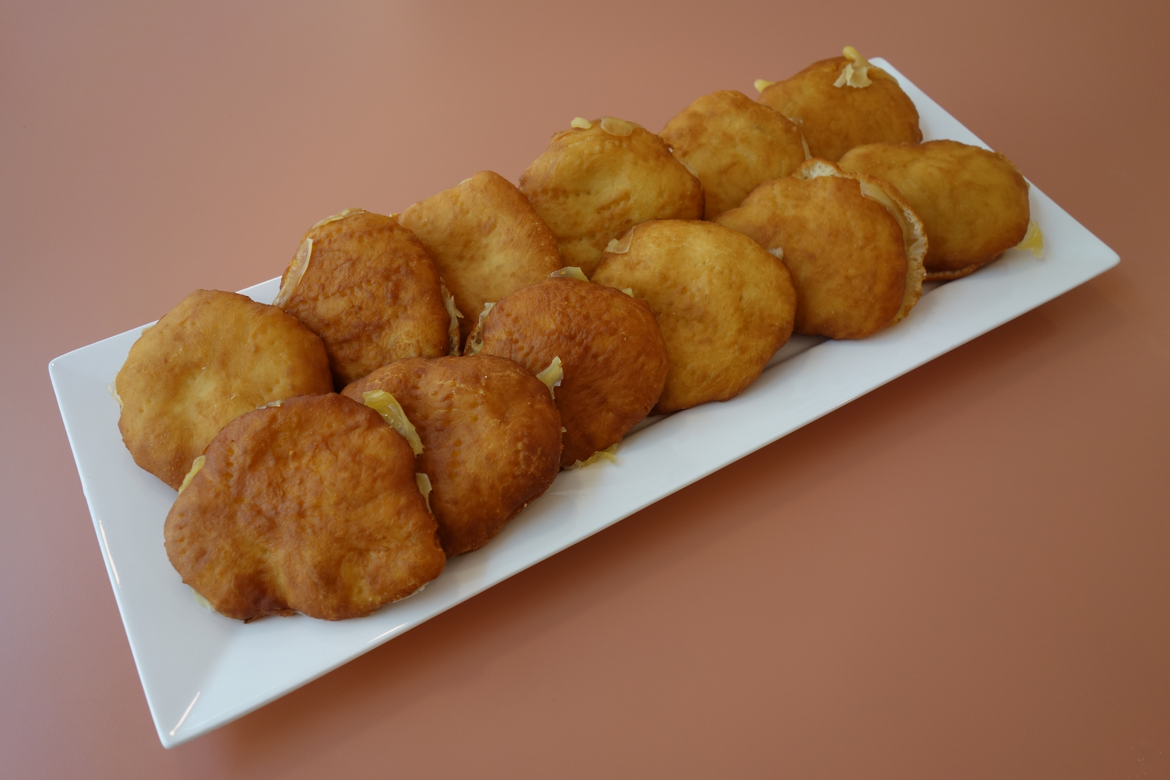 Chees filled Johhnycakes This file was uploaded to Wikimedia Commons in the context of the project Wiki goes Caribbean, initiated by Wikimedia Nederland. . This tag does not indicate the copyright status of the attached work. A normal copyright tag is still required. See Commons:Licensing.